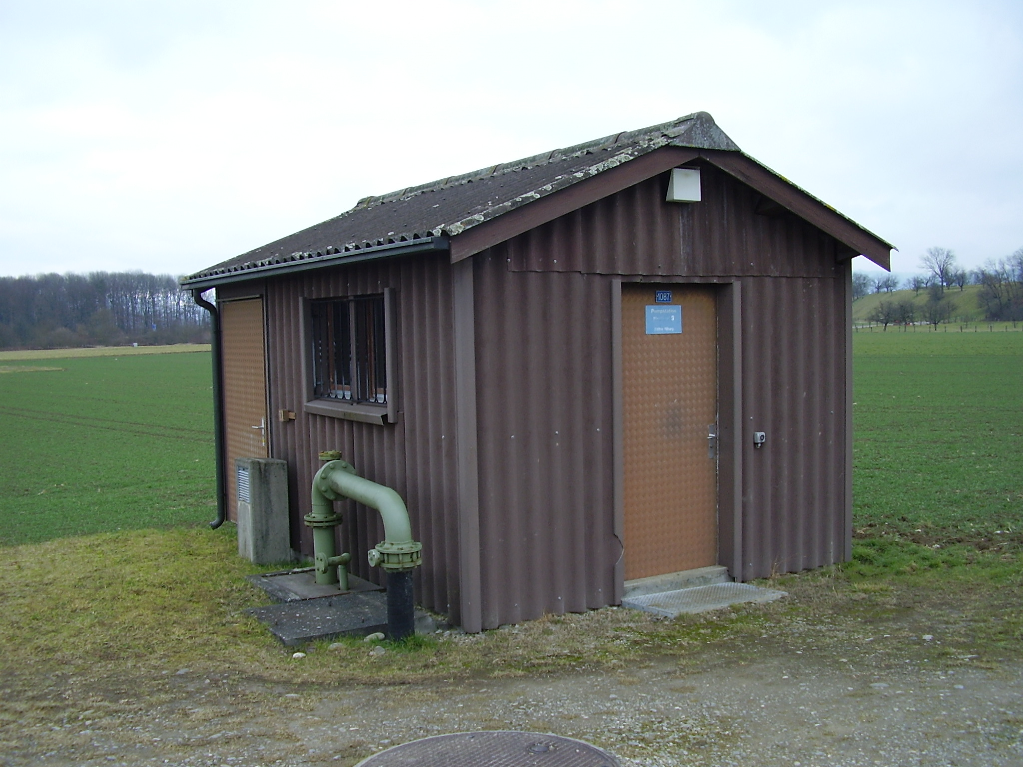 A pump of the Salt evaporation pond Riburg in Möhlin, Switzerland